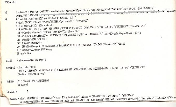 Macros in Lotus 1-2-3 Release 2.2 1989